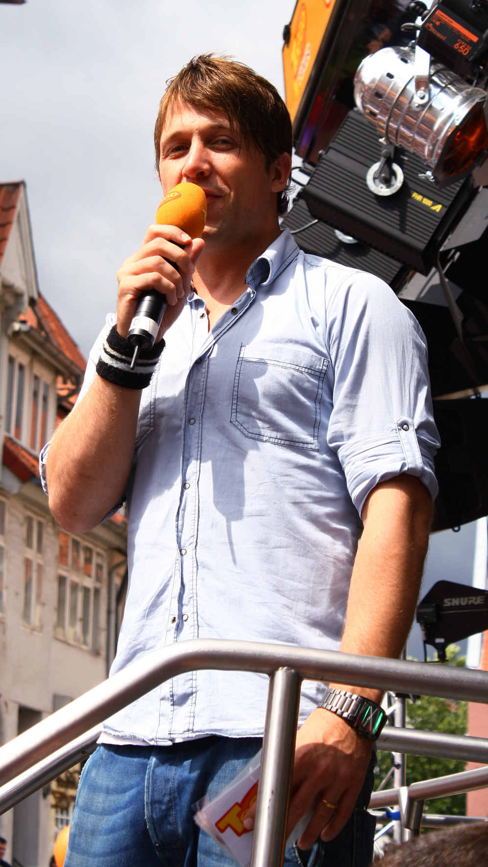 Florian Ambrosius, 2009 (Toggo Tour)